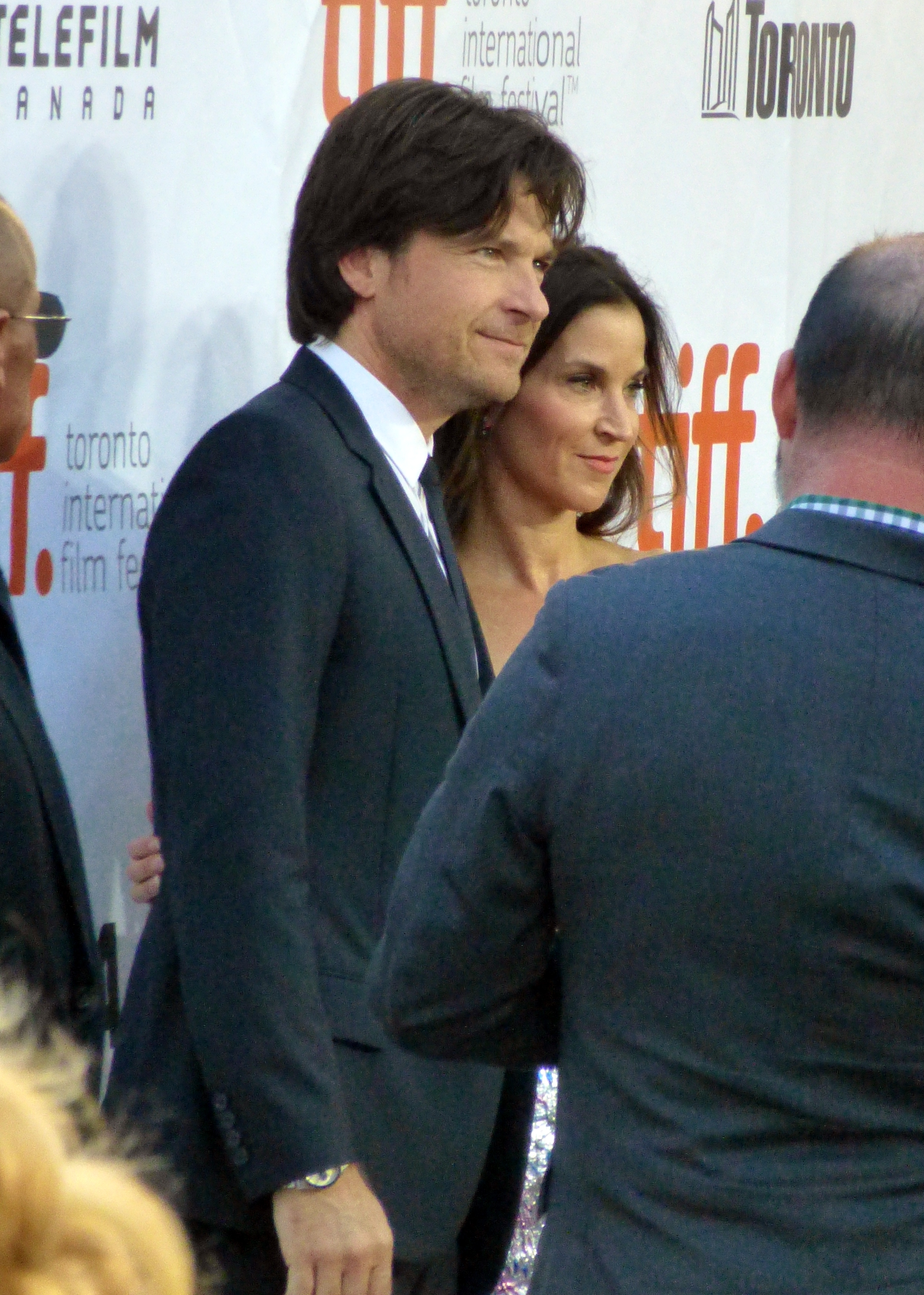 Jason Bateman and Amanda Anka at the premiere of This Is Where I Leave You, 2014 Toronto Film Festival